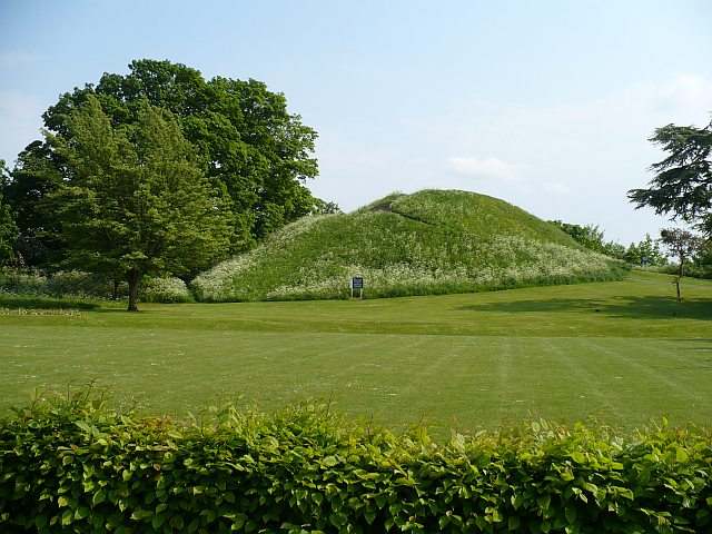 Castle Mound, the motte which was once the site of Cambridge Castle